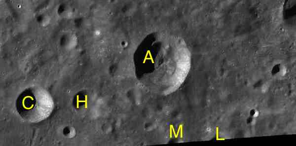 Part of chart LAC-110 used for the presentation